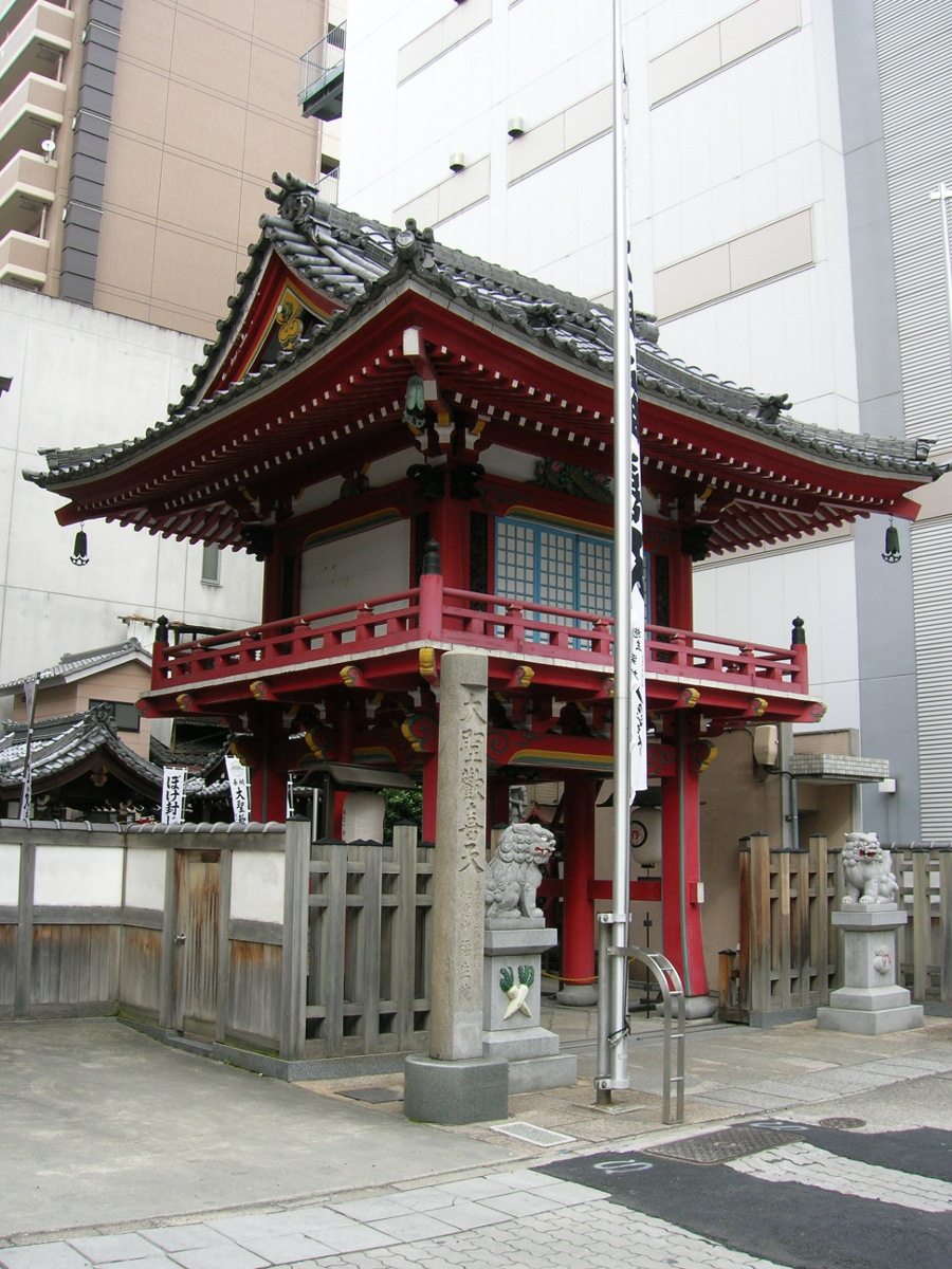 Fukushōin temple's Main gate. Loc: Nagoya city, Aichi Prefecture, Japan.